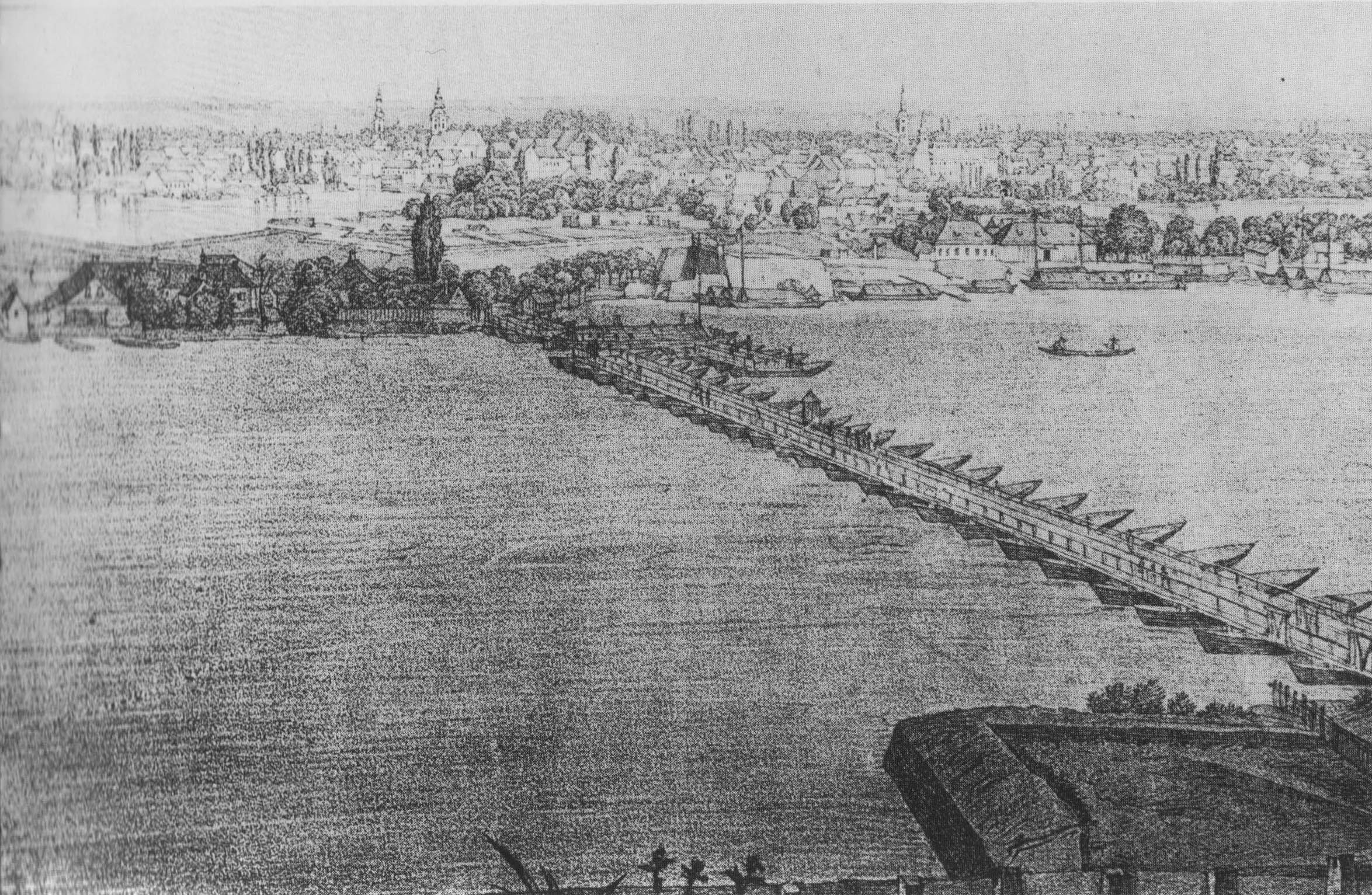 Panoramic view of Novi Sad with pontoon bridge (beginning of the 19th century).